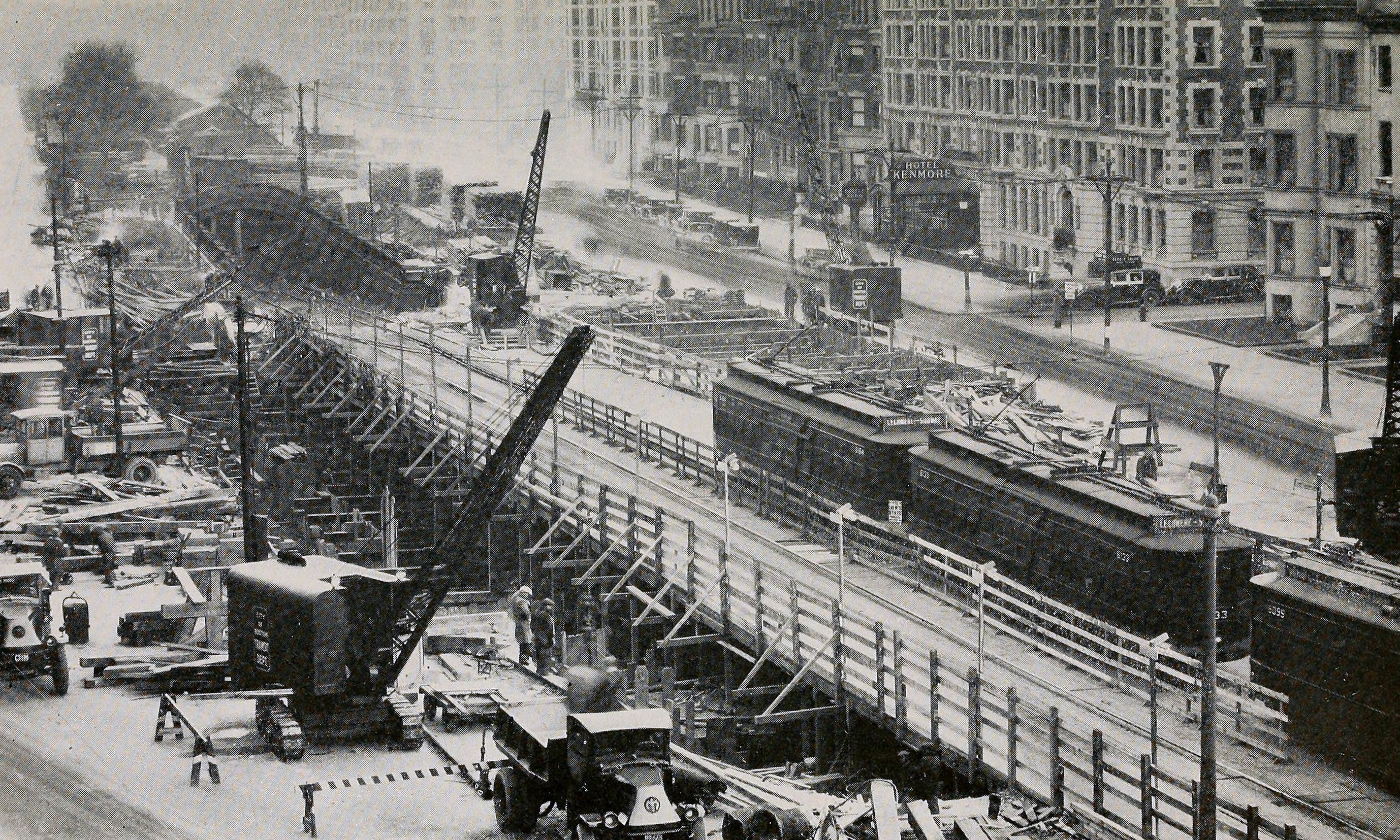 Construction of Kenmore station in 1930. The old surface tracks have been placed on timbers, allowing service to continue while the station is constructed underneath.